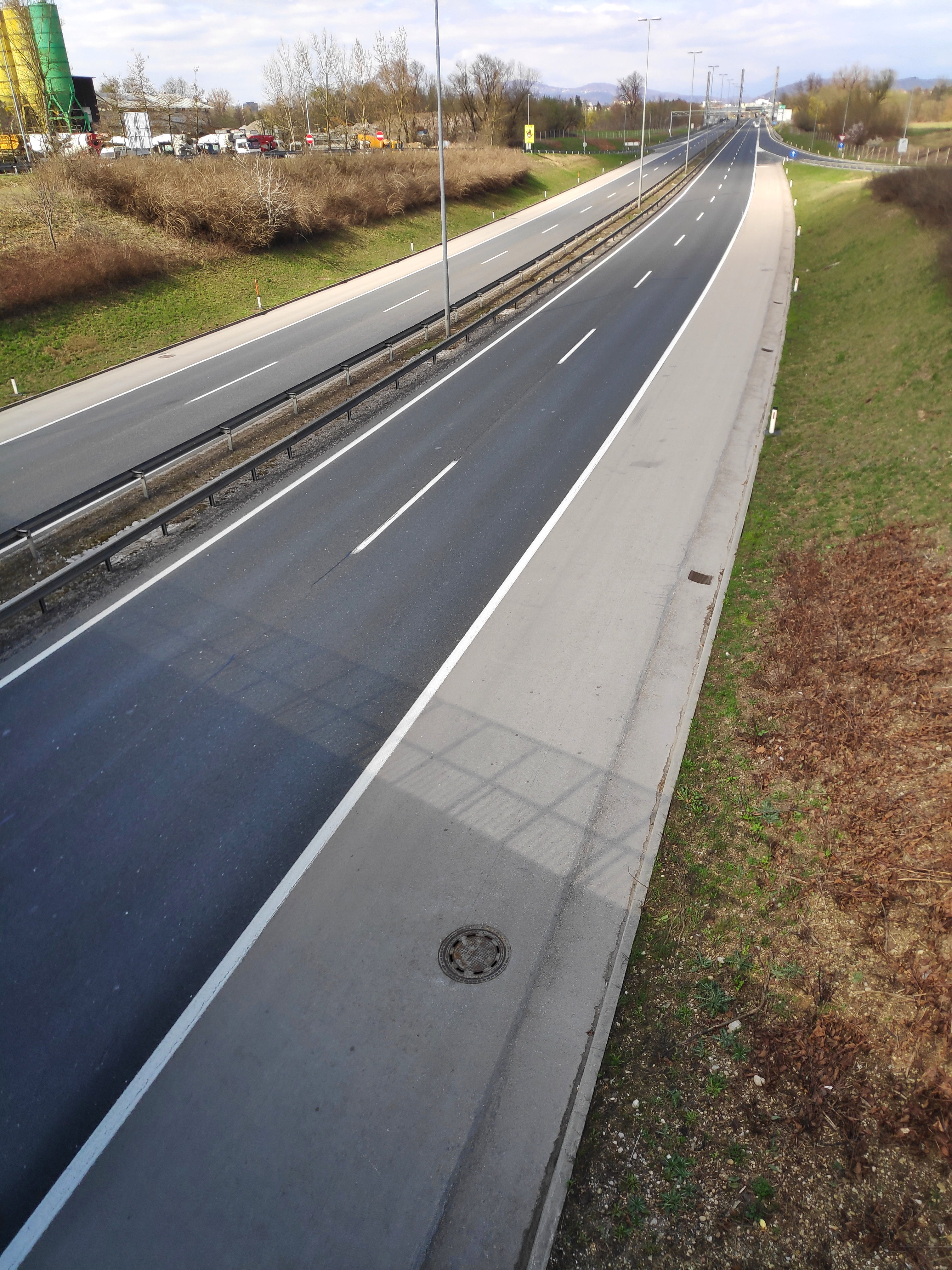 Empty motorway due to 2019–20 coronavirus pandemic (A1 motorway, Slovenia)